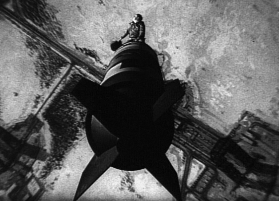 Major T. J. "King" Kong (Slim Pickins) riding the bomb in Stanley Kubrick's 1964 film, Dr. Strangelove.